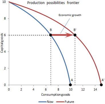 Production possibilities frontier economic growth